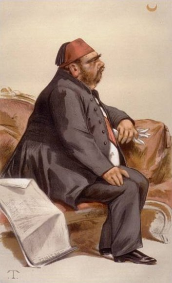 Caricature of Isma'il Pasha (1830-1895). Caption read "The ex-Khedive".